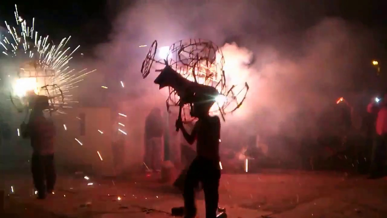 TRADICIÓN GUATEMALTECA